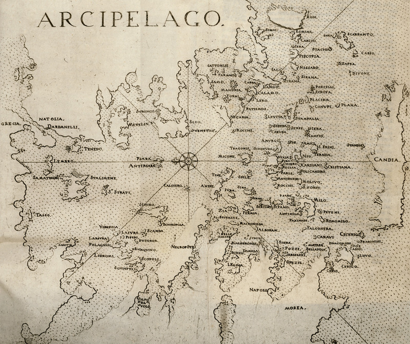 A historical map of the Aegean sea in horizontal perspective. Arcipelago by Marco Boschini, was published in Venice at 1658, and contains historical descriptions and maps for 48 islands of the Aegean sea